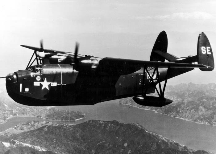 A U.S. Navy Martin PBM-5S Mariner (BuNo 59256) of Patrol Squadron 50 (VP-50) "Blue Dragons" in flight, April 1956. VP-50 became the last active duty U.S. Navy patrol squadron to replace its PBMs with the new Martin P5M-2 Marlin in June 1956.